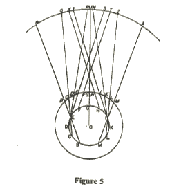 Diagram showing the source of the Ptolemaic epicycles for Jupiter - Day 3 of the dialogue